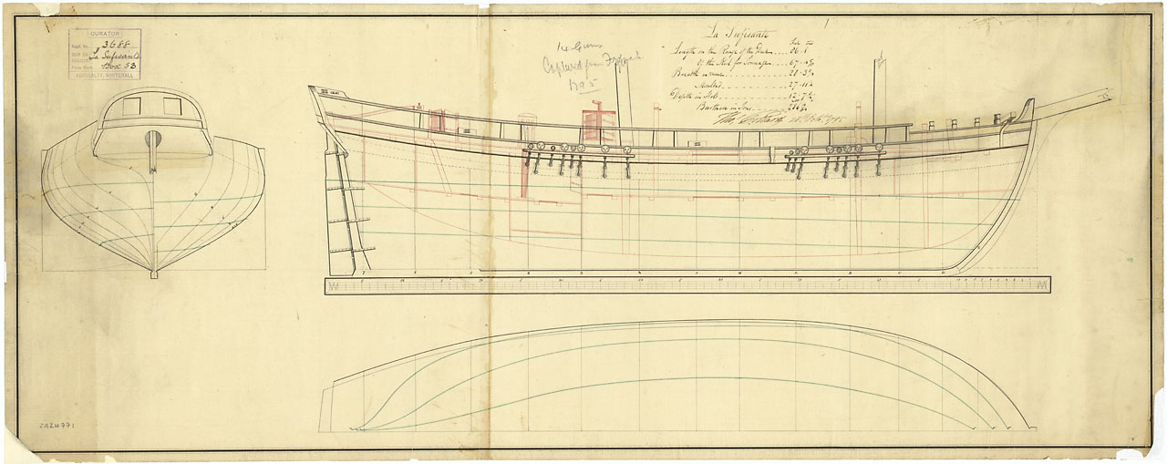 SUFFISANTE FL.1795 [FRENCH] lines & profile